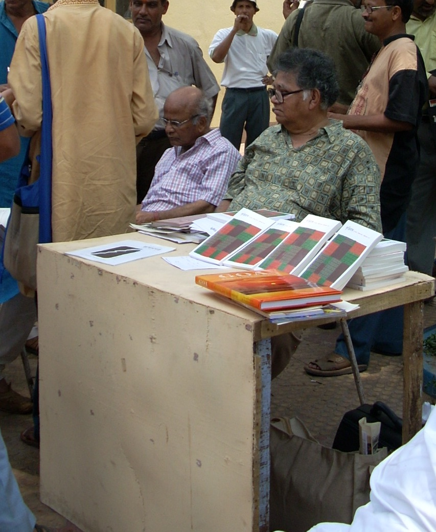 I took the picture in 25se boishakh